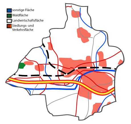 Maps of Kreis Herford (Germany) series. Shows various kinds of information including topographical, demographical, and use of land information for all communities of Kreis Herford and the district of Herford itstelf.